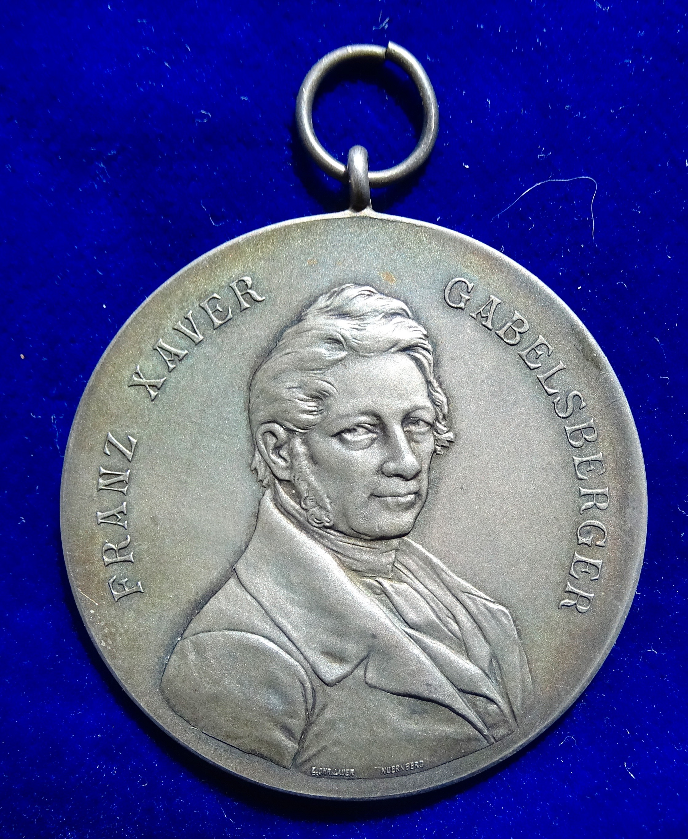 Medallion d. = 40 mm. 25.97 g Ag 0.990 Fine Silver Gabelsberger, Franz Xaver, 1789 München - 1849 Munich, Germany. Portrait r., curved above: "FRANZ XAVER GABELSBERGER"/ 8 lines within wreath: "FÜR LANGJÄHRIGE VERDIENSTVOLLE MITGLIEDSCHAFT GABELSBERGERSCHER STENOGRAPHEN- VEREIN VON 1863 IN HANNOVER". Deutsche Fotothek Datensatz 71399800. Forrer III, p. 325. Mint: L. Chr. Lauer, Nürnberg Condition: UNCIRCULATED, no hidden problems.